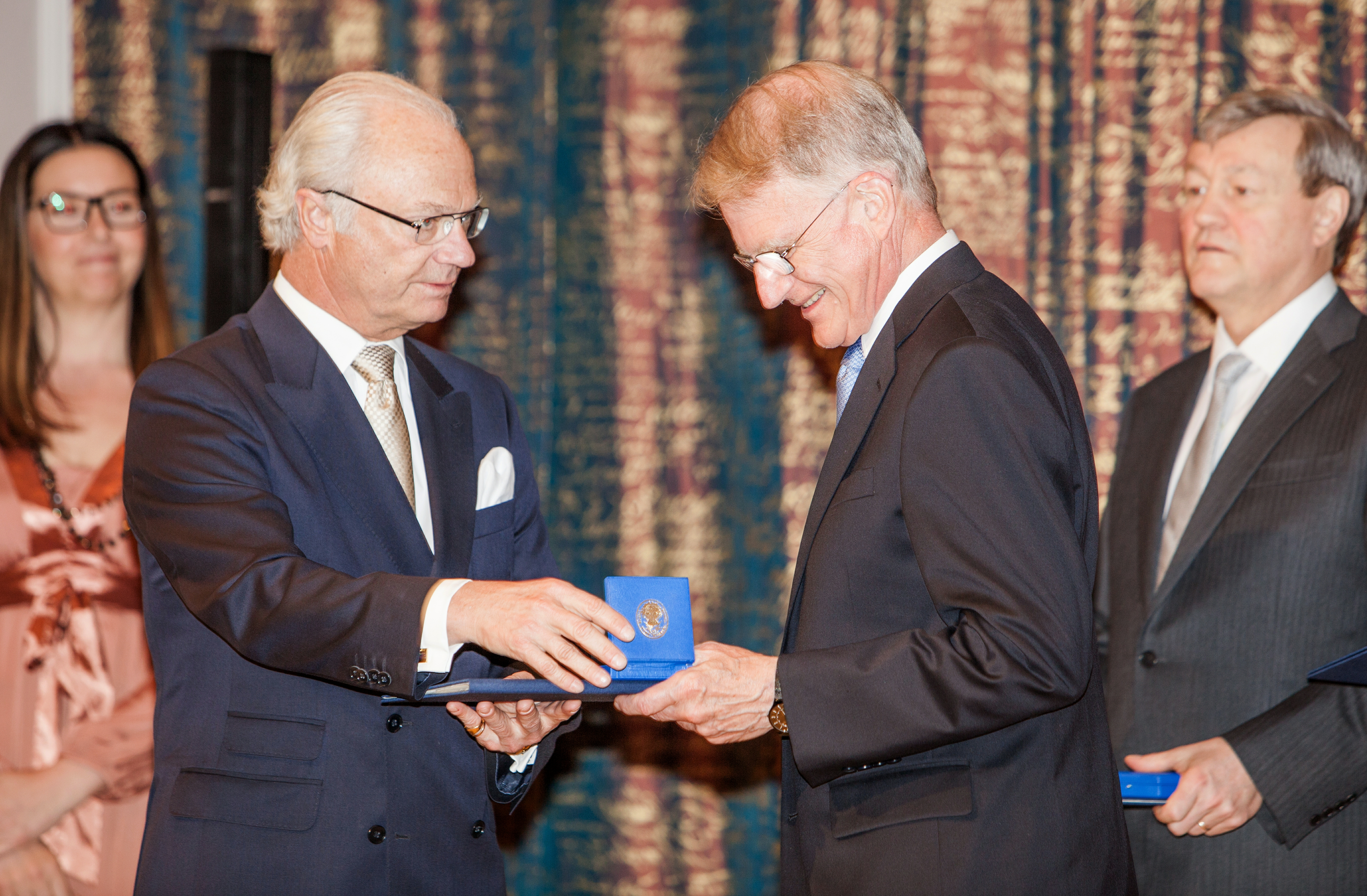 Carl XVI Gustaf of Sweden awards The Crafoord Prize in Polyartheritis 2013 to Robert J. Winchester